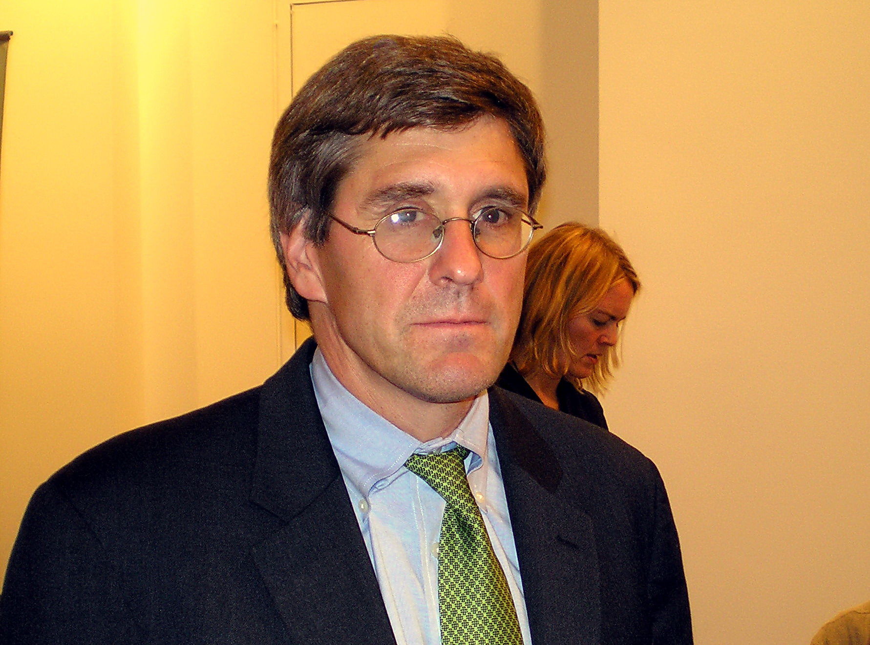 The American economist Stephen Moore in New York City